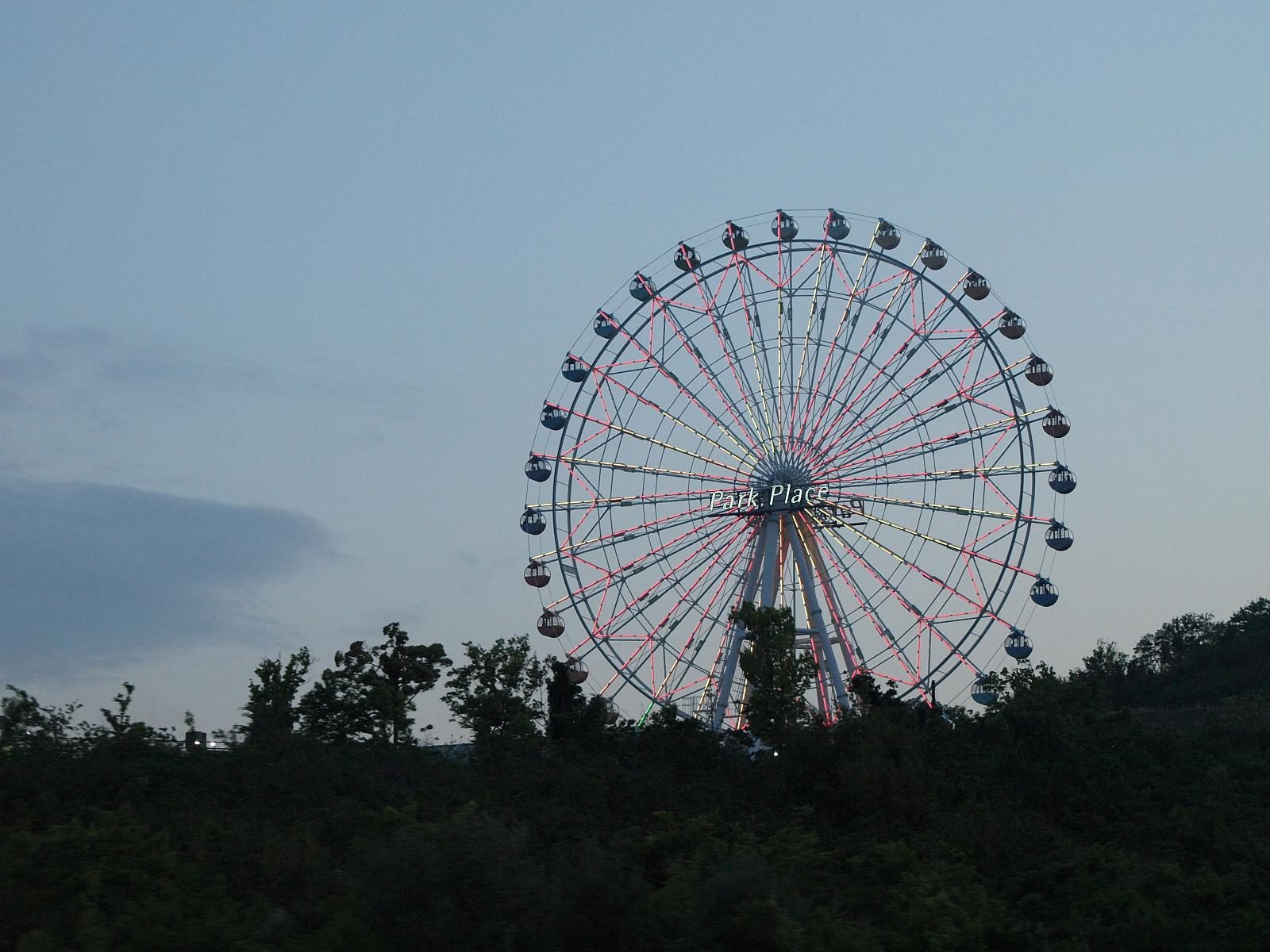 Park Place Oita, Oita City, Oita, Japan